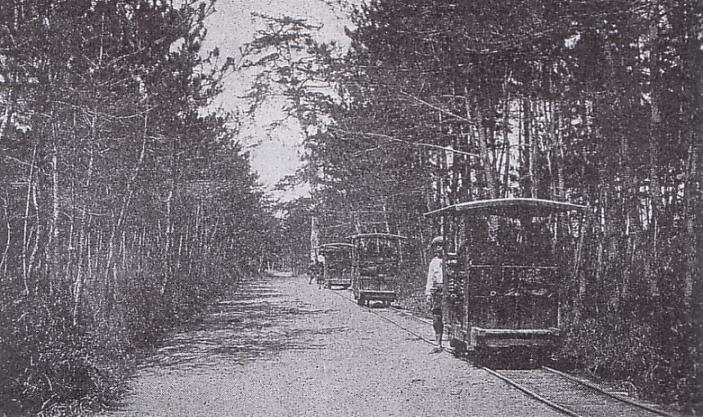 Former Sumiyoshi handcar railway in Kyushu, Japan